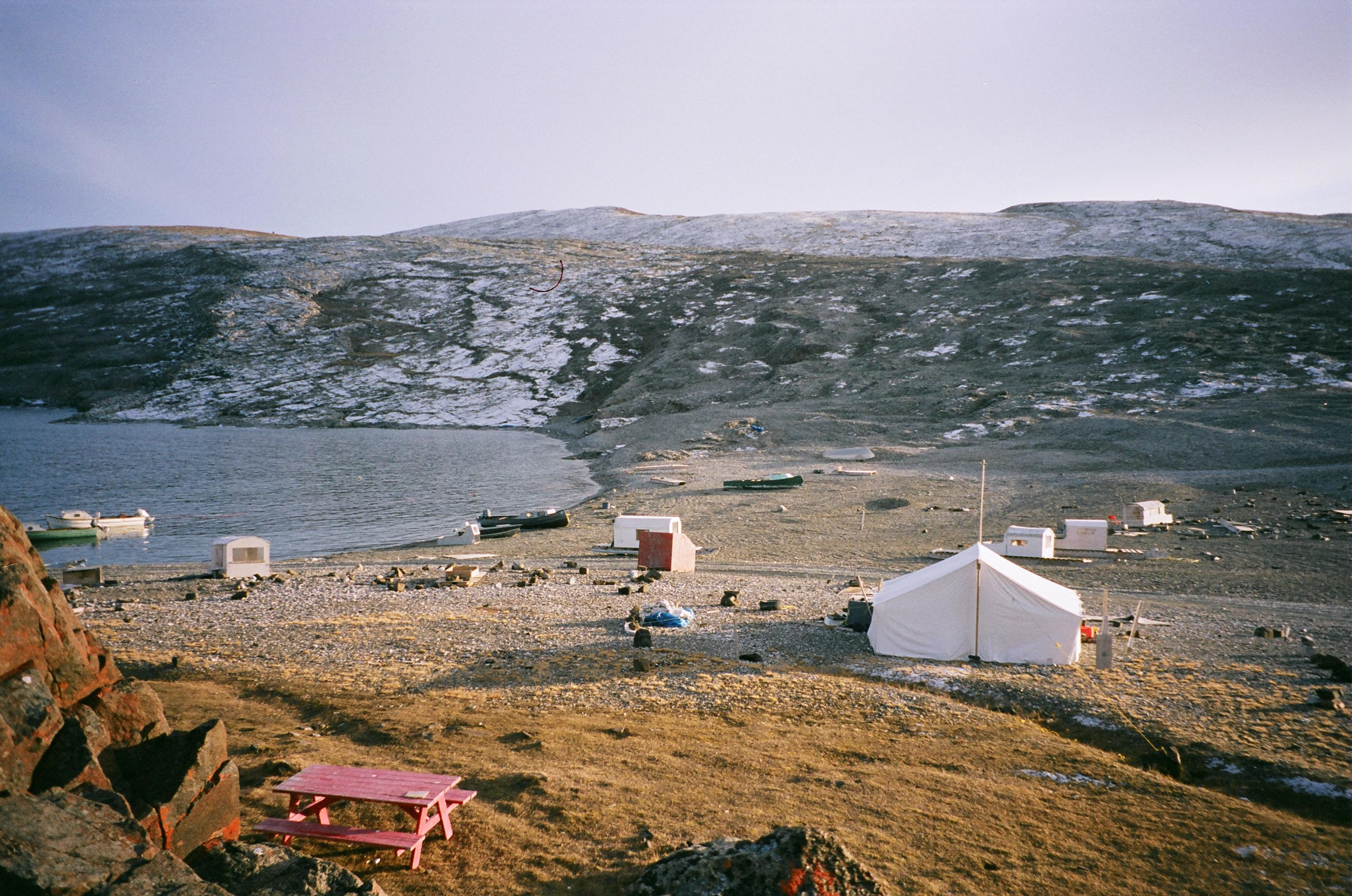 View of Victor Bay near Arctic Bay, Nunavut, Canada, including tents